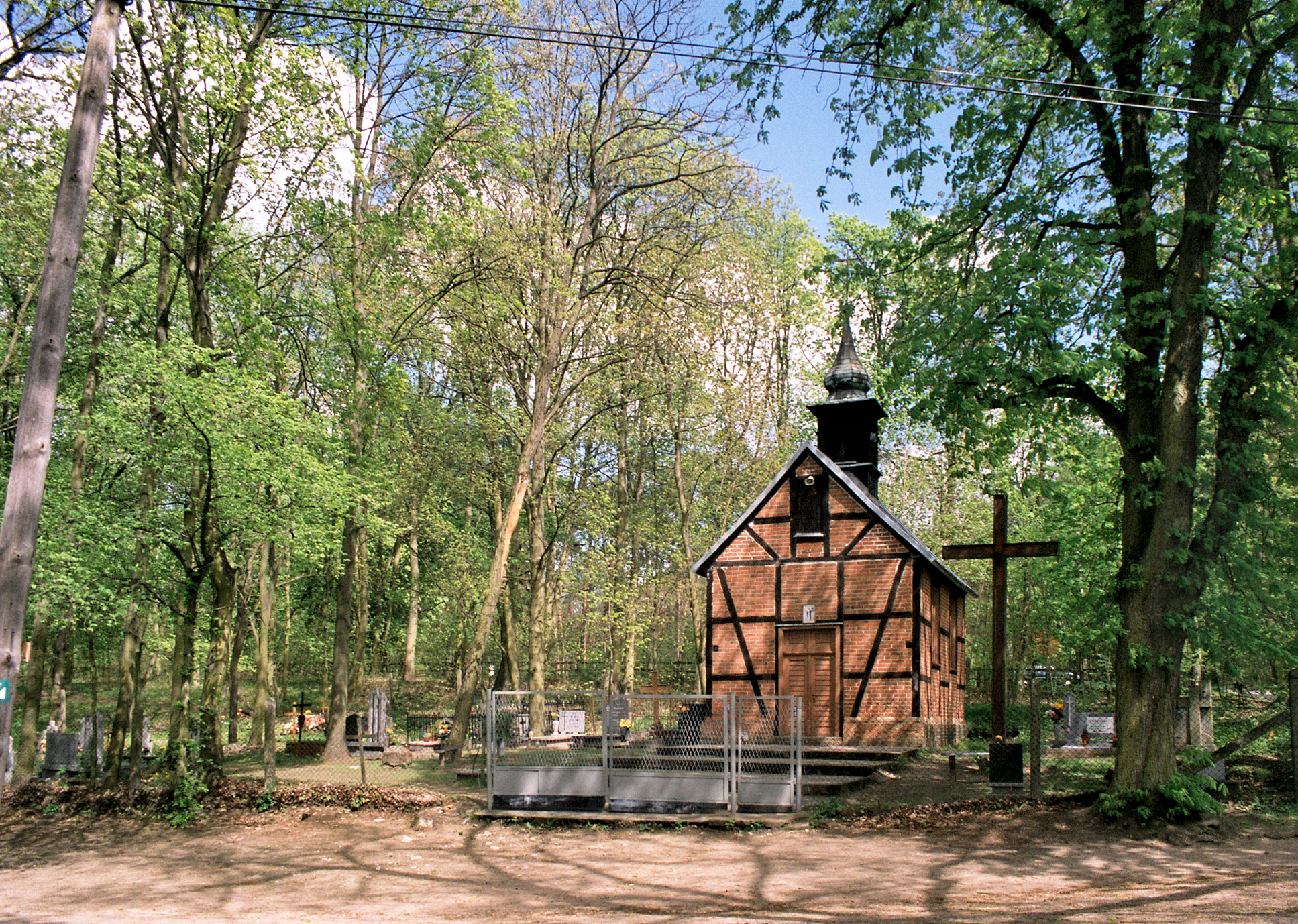 Toruń-Barbarka, Poland, chapel of St. Barbara and cemetery